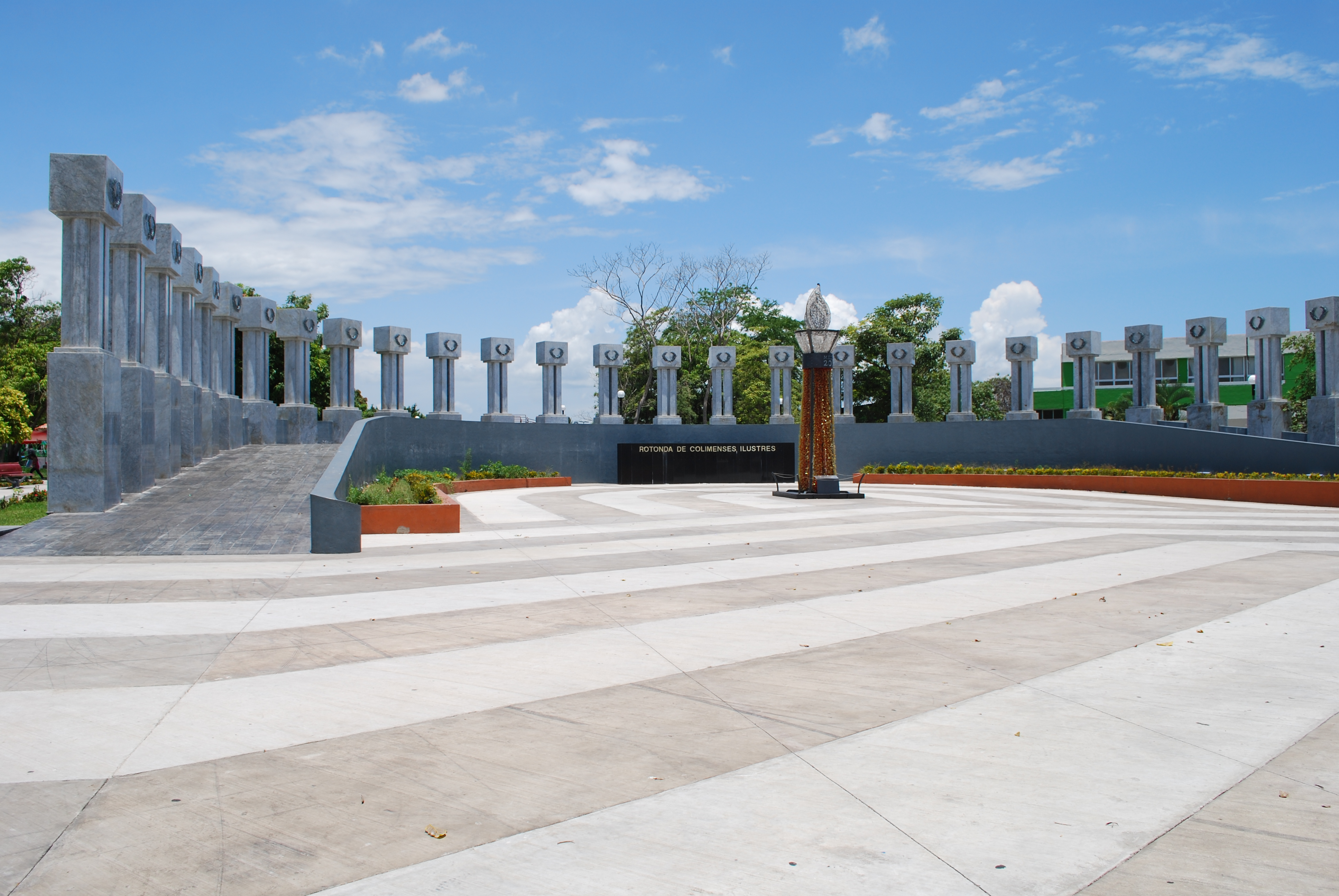 Monument in the Parque de Piedra Lisa in Colima